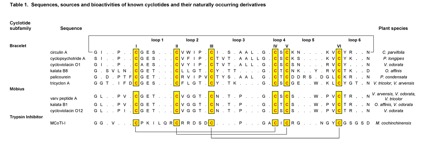 Copied from File:Sequence table.jpg: I created this picture. It is from my research.